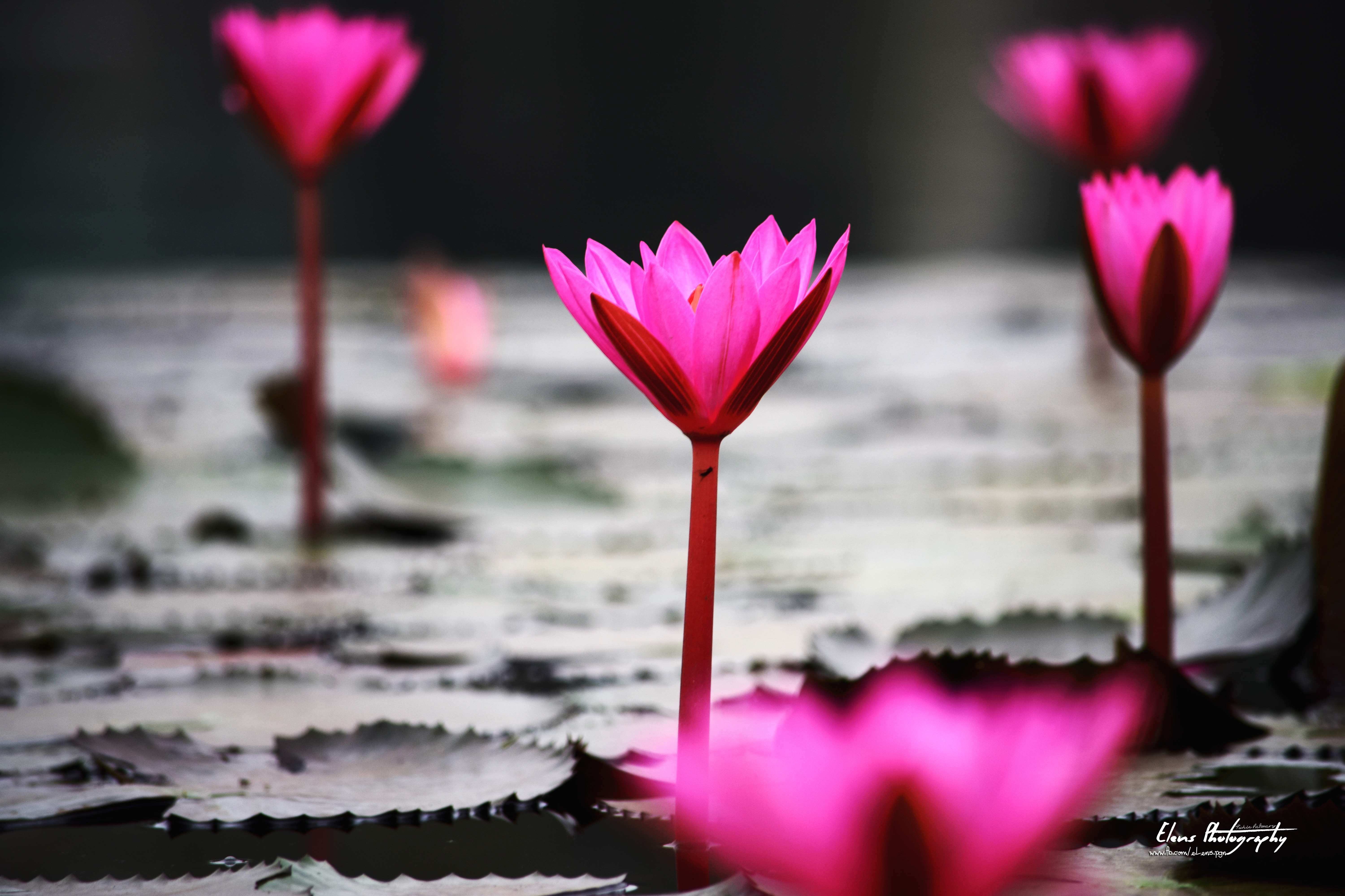 Taken on December 12, 2014 For more information & better quality: 2014 © ELens Photography